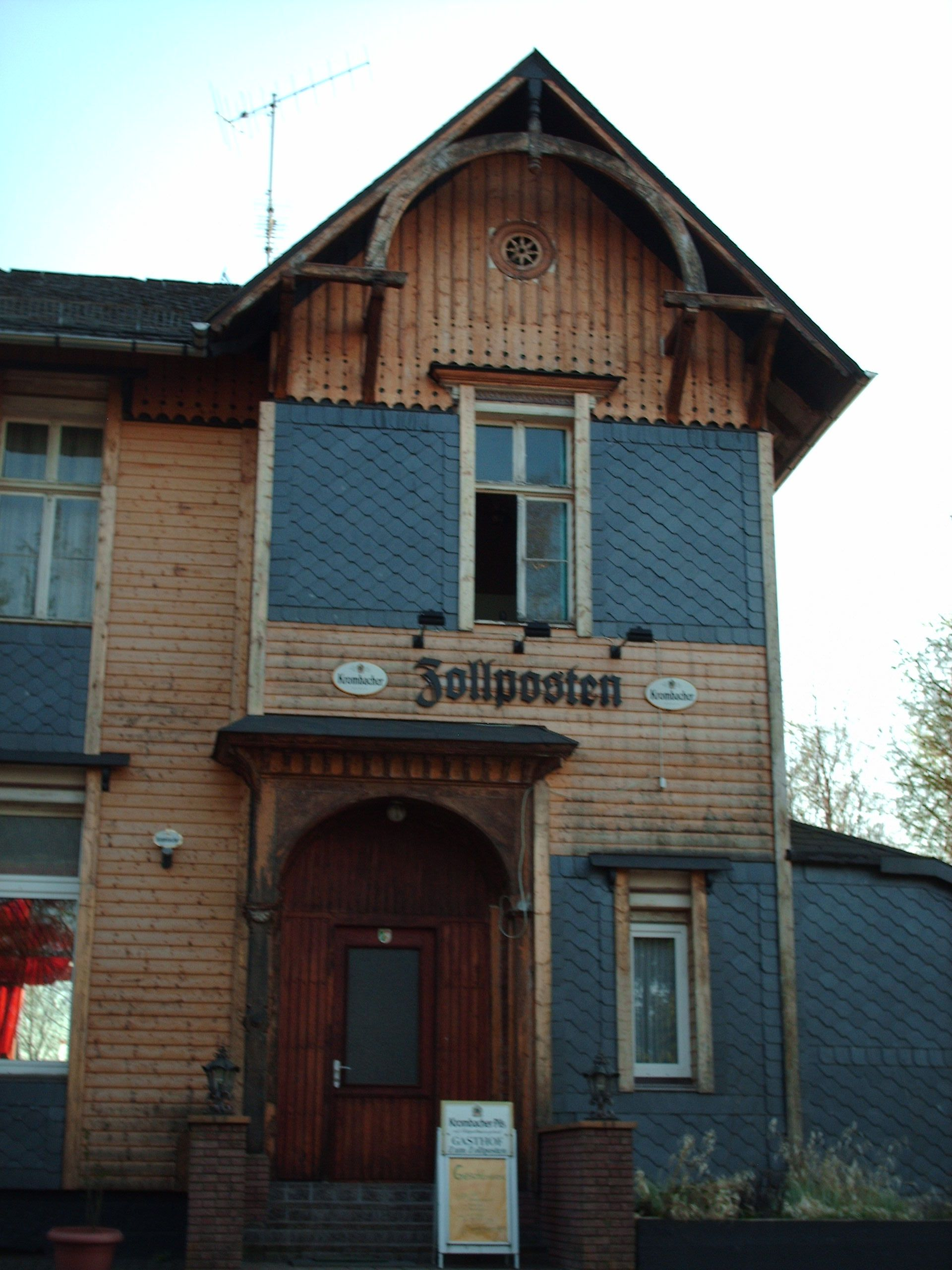 Vormwald station, Hilchenbach, Germany check usage